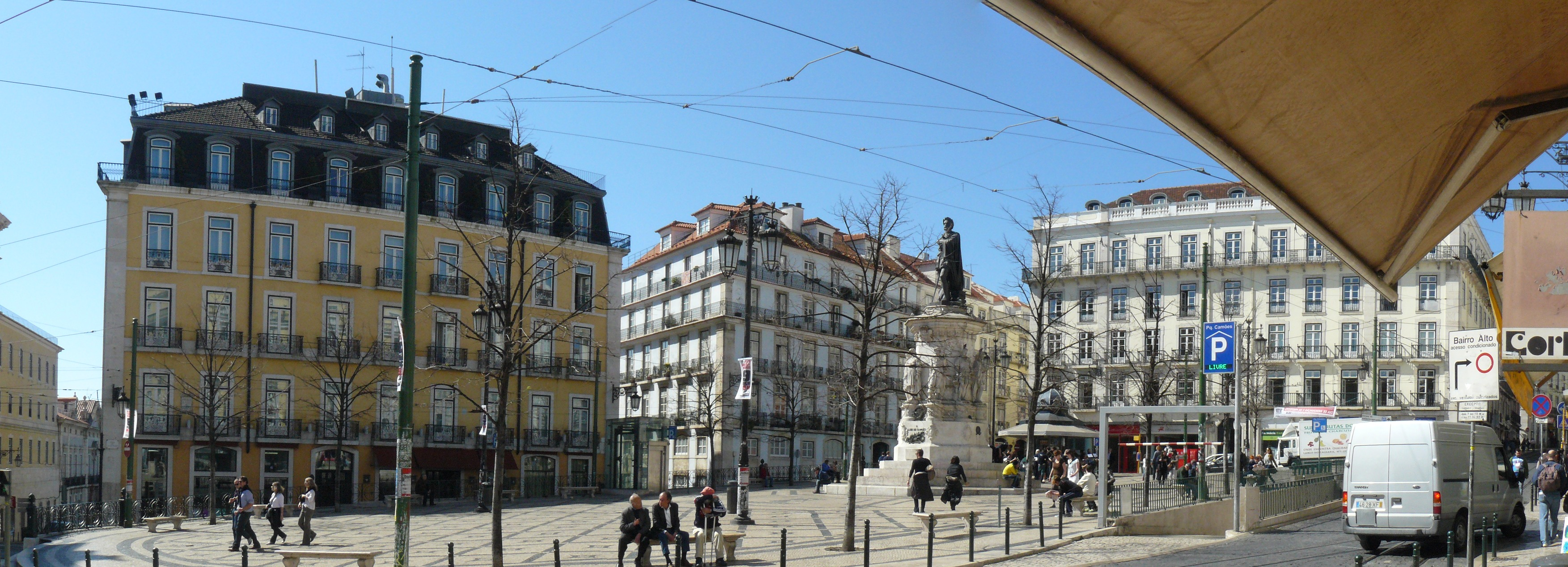 Praca de Luis de Camoes, Lisbon.